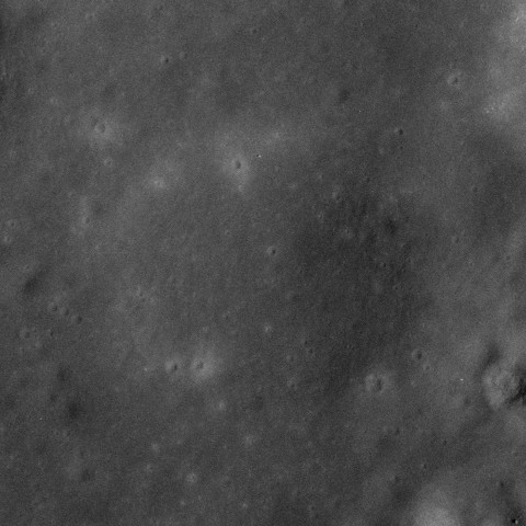 Shakespeare crater, Taurus–Littrow valley, on the moon. Sun elevation 46 deg., spacecraft altitude 112 km.